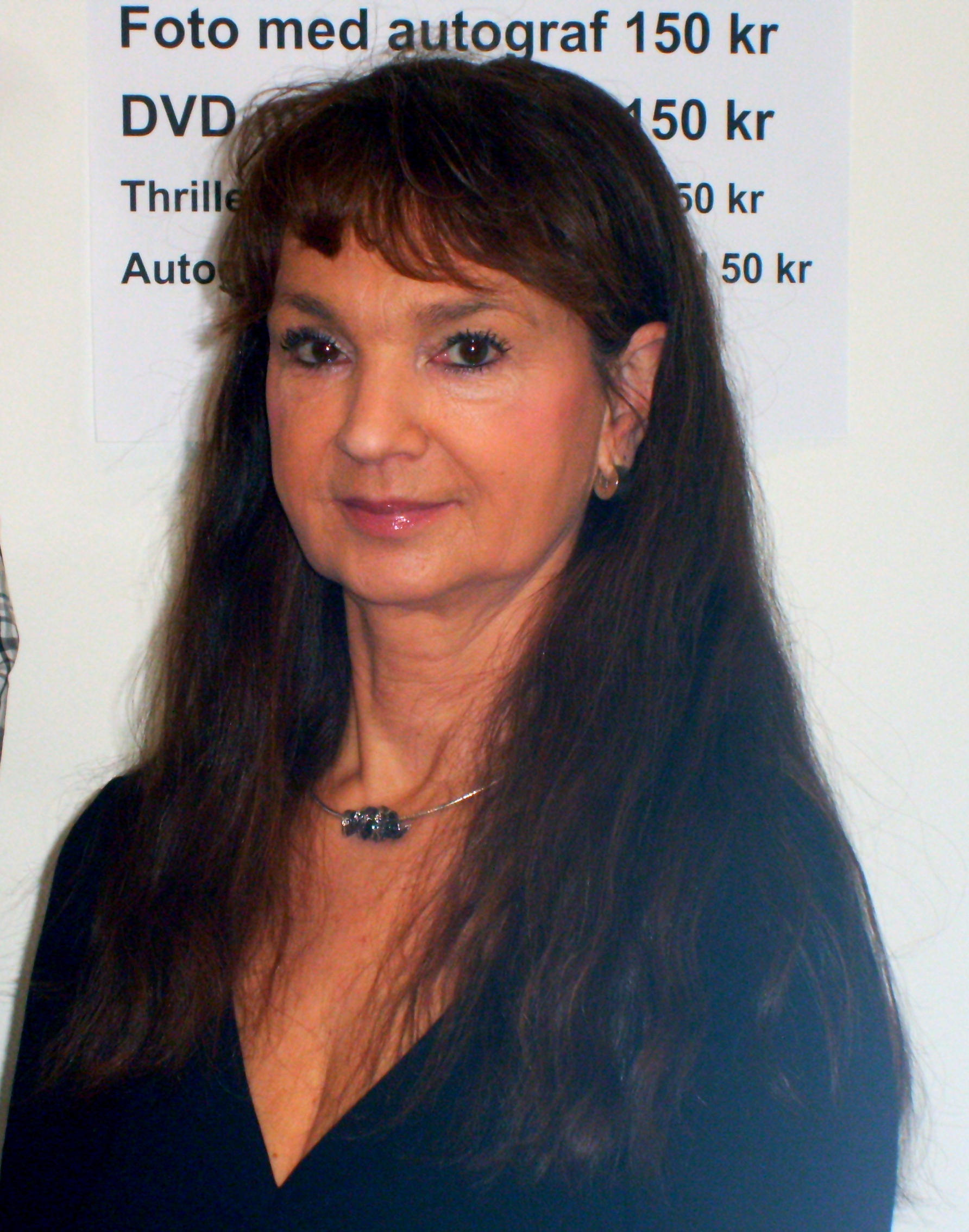 Christina Lindberg, Swedish actress at Stockholm International Fairs 2012.